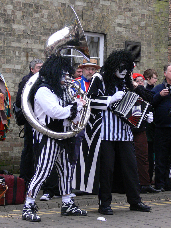 Musicians of Pig Dyke Molly dance team playing at Whittlesea Straw Bear Festival 2007 in Whittlesey, Cambridgeshire, UK. Dave Parker on sousaphone; the late Robin Griggs on melodeon/diatonic accordion.